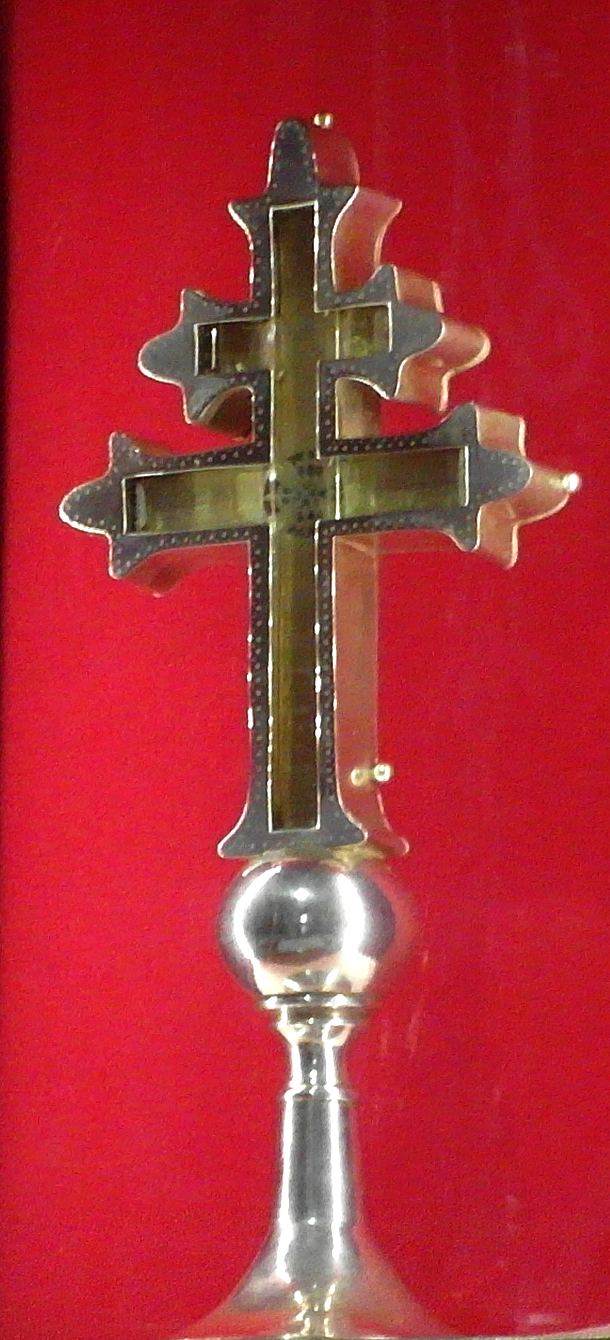 Reliquary of the True Cross in the Holy Cross Monastery, Poland